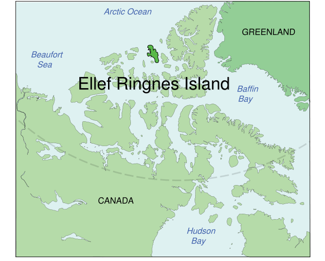 Location of Ellef Ringnes Island